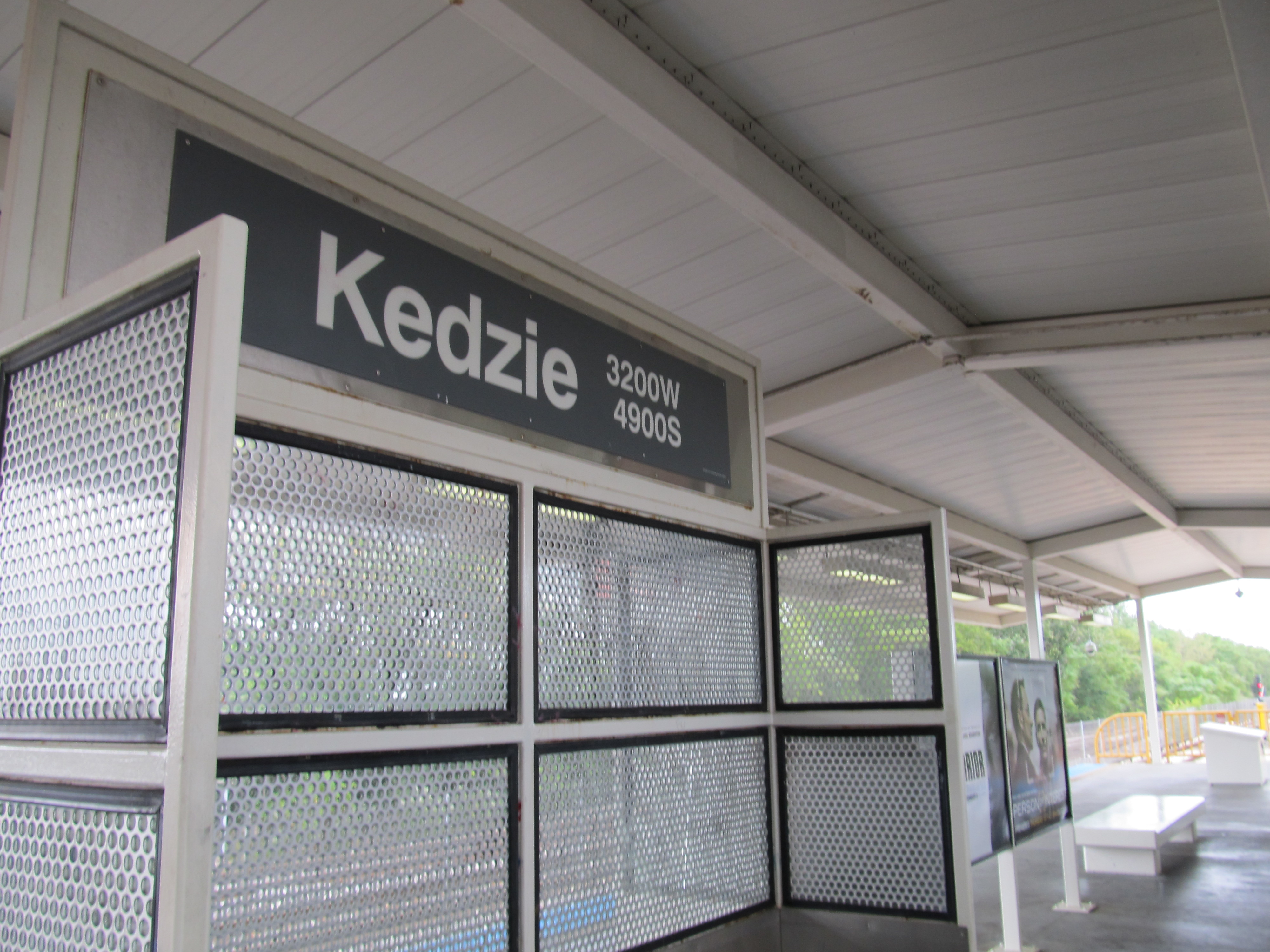 Platform view of Kedzie Station.